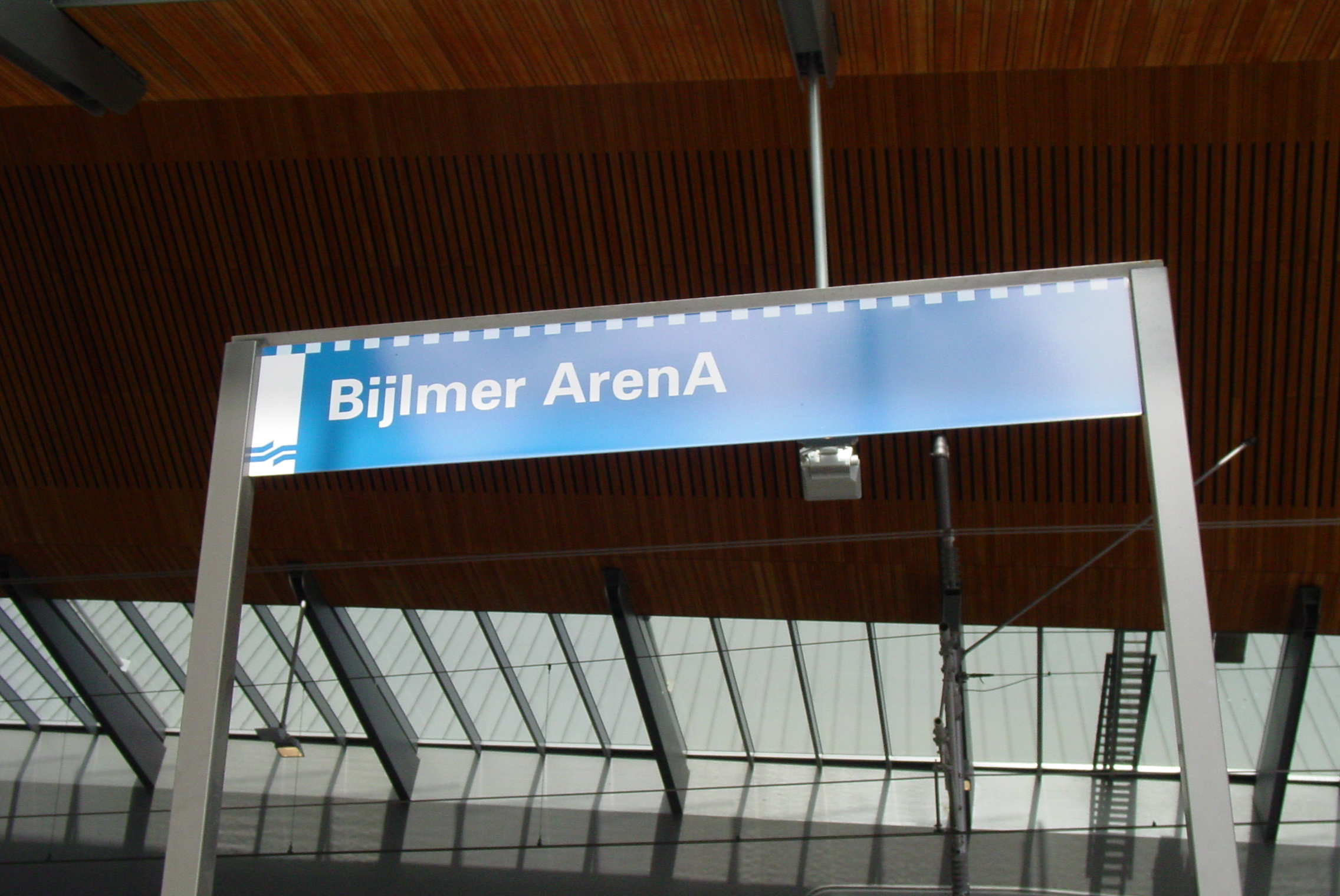 Metro platform sign Amsterdam Bijlmer ArenA railway station.